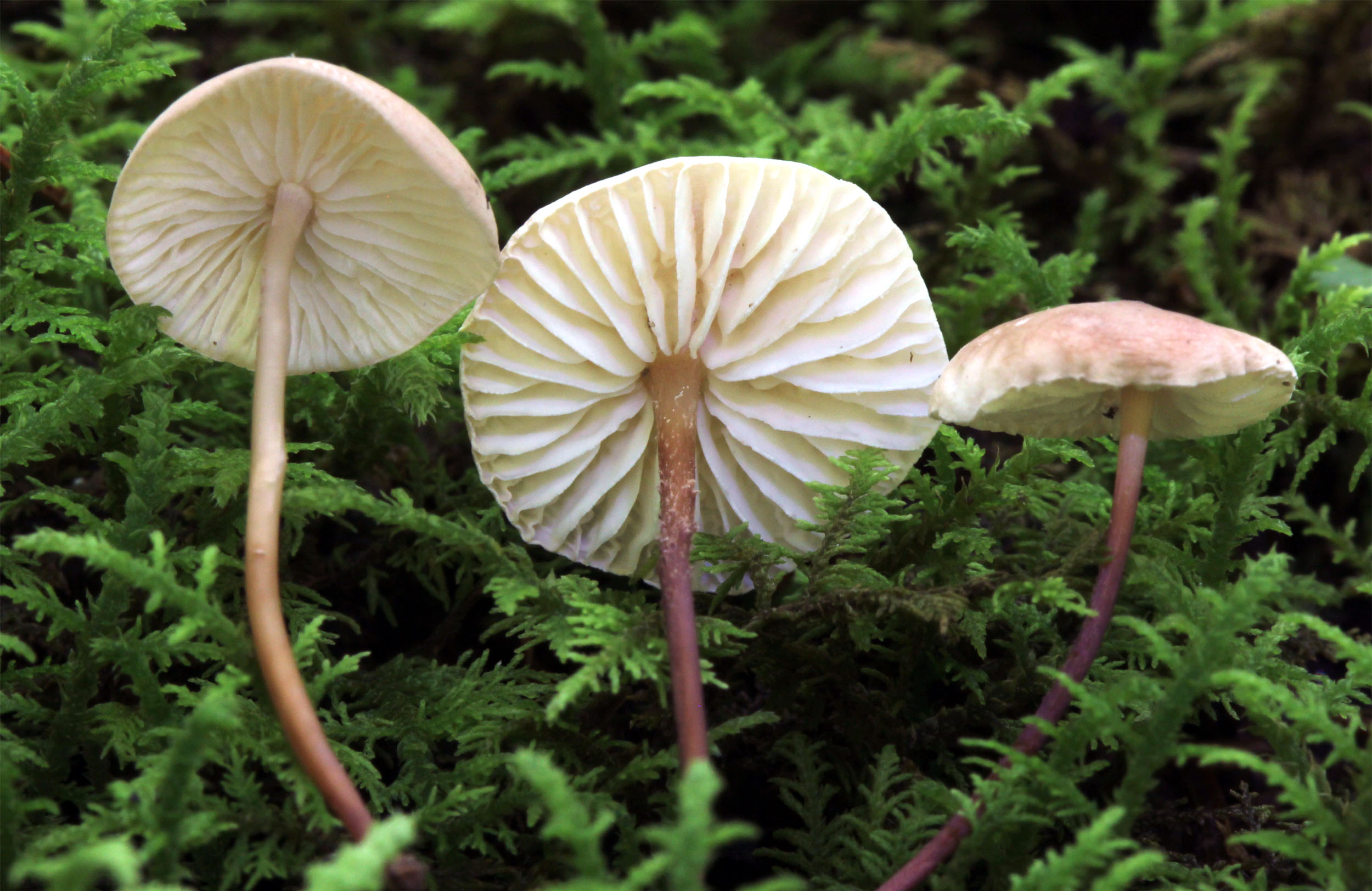 Fruit bodies of the agaric fungus Mycetinis scorodonius (Fr.) A.W. Wilson & Desjardin. Photographed in Alum Cave Trail, Great Smoky Mountains National Park, Sevier Co., Tennessee, USA.